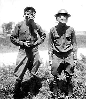 Portrait of Oscar M. Solbert, a captain, wearing a gas mask and holding a hand grenade, standing with an unidentified soldier wearing a gas mask in a field at a camp. This image was probably taken at Camp Grant in Rockford, Illinois.